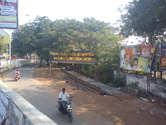 Madurai Junction western Entry